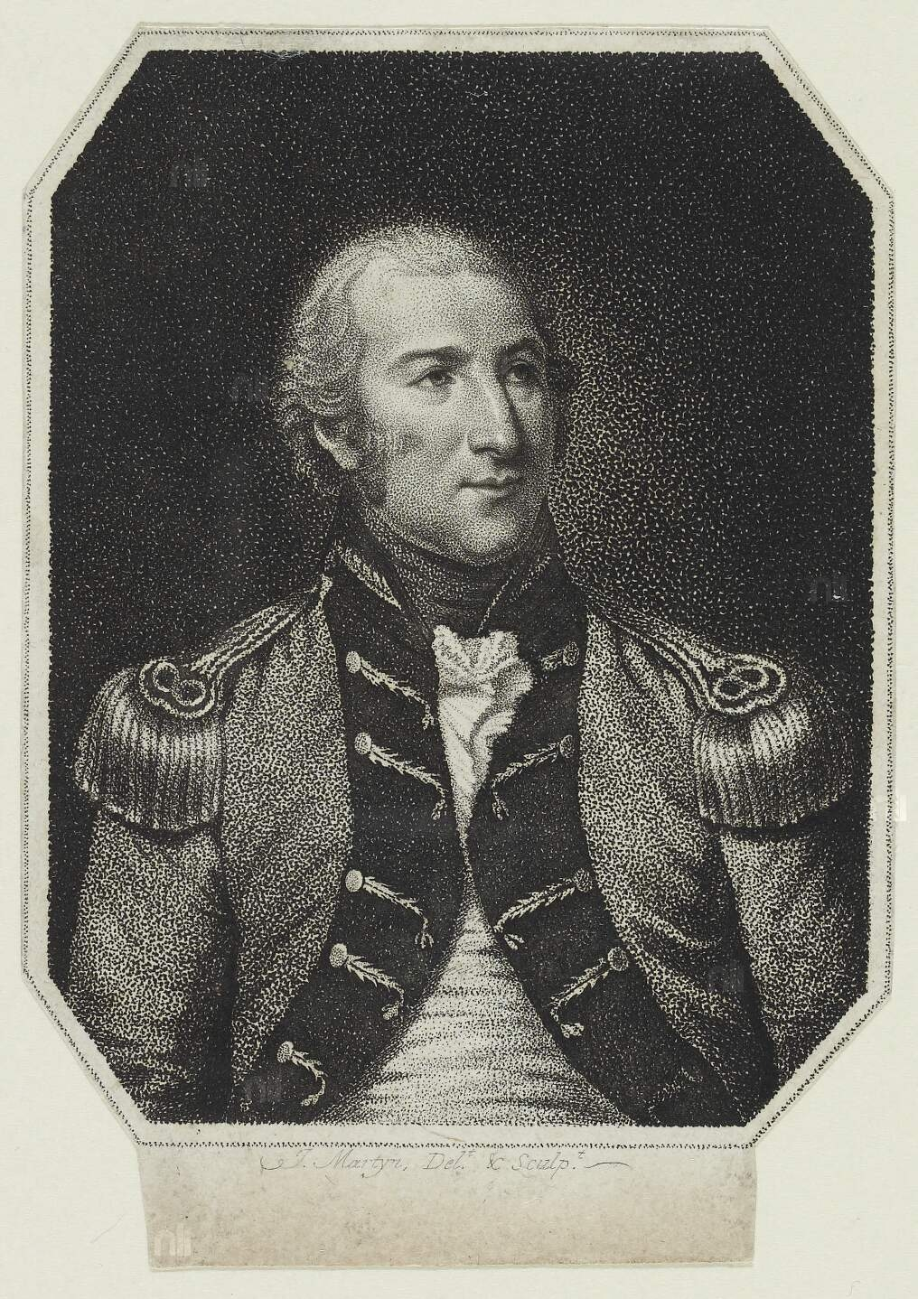 Portait of Henry Charles Sirr, Town Major of Dublin, by John Martyn, (fl. 1794-1828).